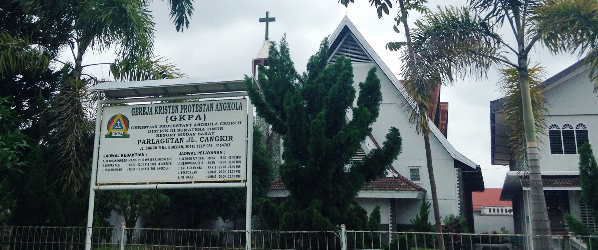 GKPA Jl. Cangkir, Church in Sei Putih Tengah, Medan Petisah, Medan